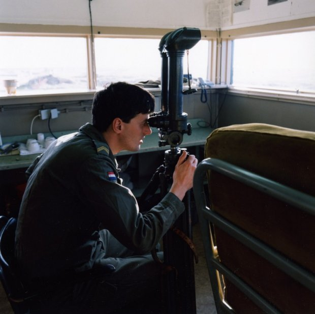 With a pair of binoculars, a gunnery sergeant first class watches the sea routes and the coast at the Botgat shooting range near Den Helder, The Netherlands